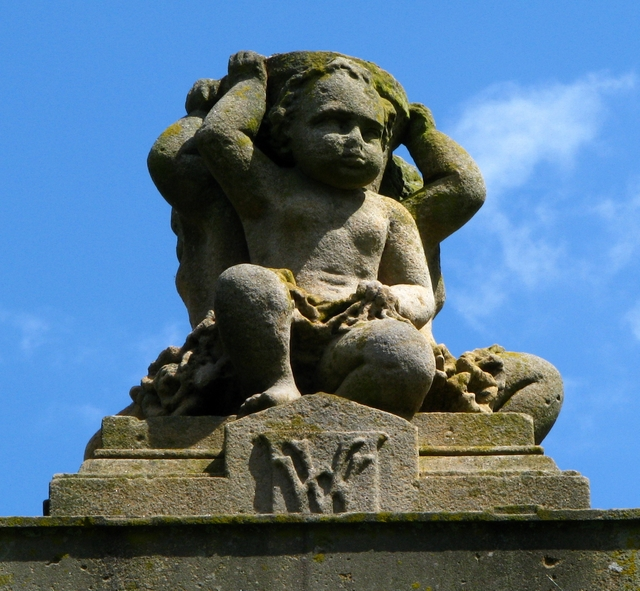 Gate pier, Grovelands Park, Belfast [detail] Detail of the top of the gate pier seen in 833151.